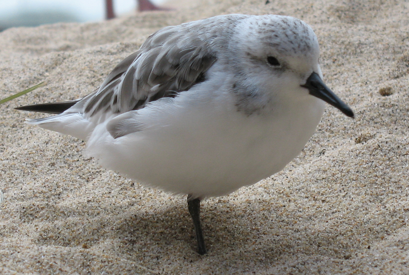 One-legged Sanderling, Monterey Bay Aquarium